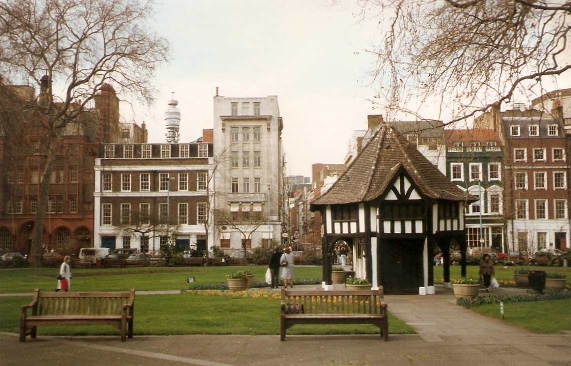 View of Soho Square, London, in 1992. The Post Office Tower can be seen in the backrground.